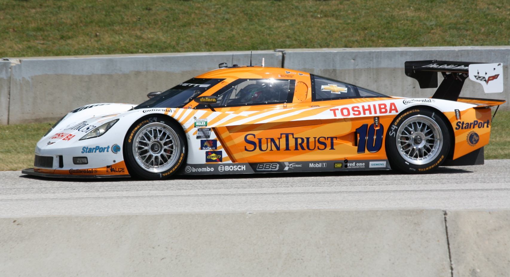 The SunTrust Racing Daytona Prototype driven by Max Angelelli and Ricky Taylor at a 2012 race at Road America. Max Angelelli is at the wheel in the photo.